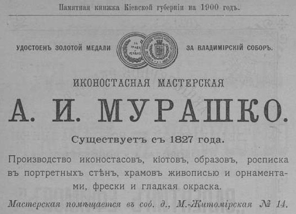 Murashko Oleksandr Ivanovych, advertise iconostasis workshop, 1900